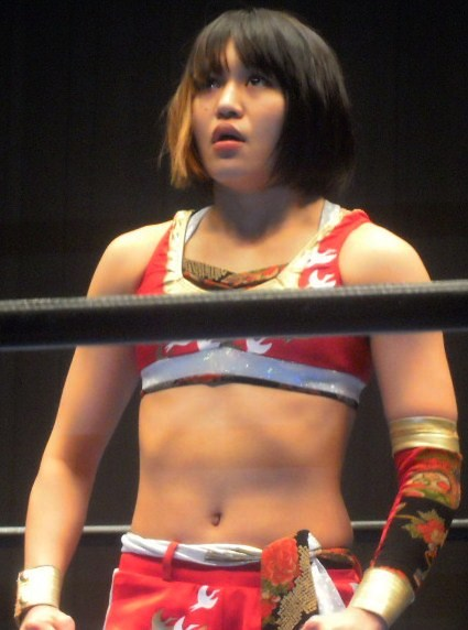 Japanese professional wrestler,Shuri. Mar 21 2011 Ice Ribbon Korakuen Hall.